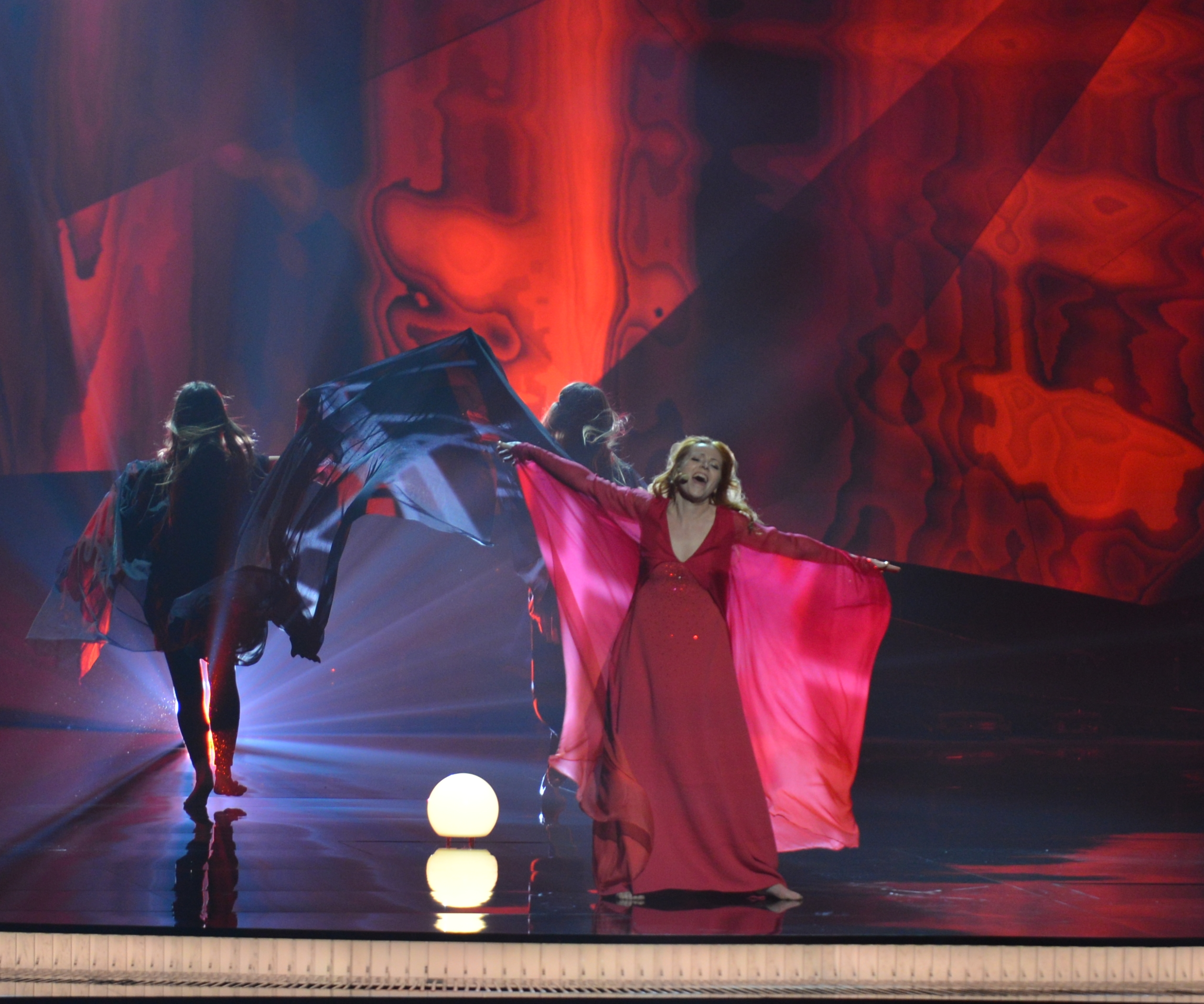 Valentina Monetta from San Marino performing her song Crisalide in a dress rehearsal for the second semi final of the Eurovision Song Contest 2013.